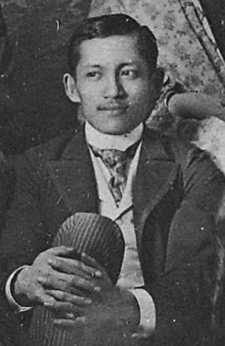 Jose Rizal in Barcelona, Spain